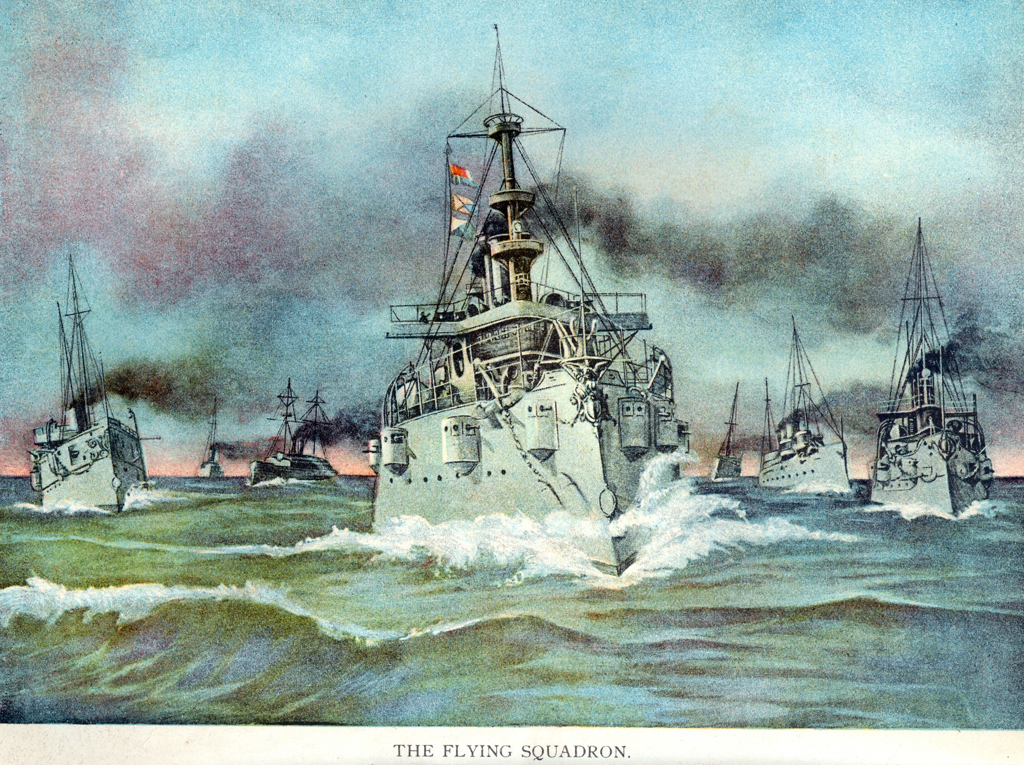 US Flying Squadron, 1898